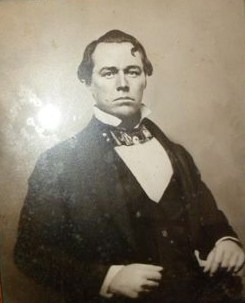 Owen Rand Kenan Politian lived in Kenansville NC during the Civil War.